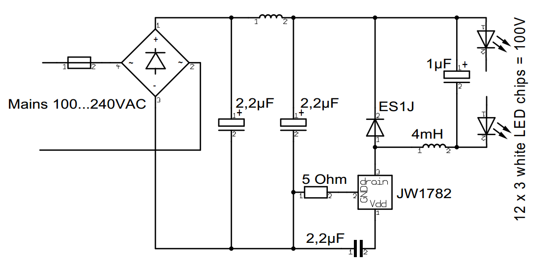 simplified Schematic of a 6-Watt-LED-bulb, reverse-engineered from an opened bulb. A step down switching regulator, based on the 3-terminal integrated circuit JW1782, builds a constant current source from the rectified mains voltage for the 36 series-connected LED-chips, consisting of 12 SMD-housings. The current (60mA) is set by the 5-ohm-resistor